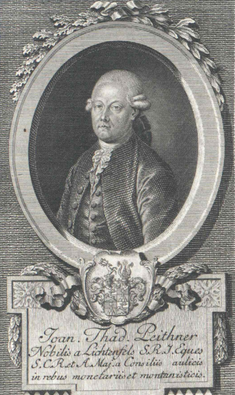 Johann Thaddäus Peithner von Lichtenfels